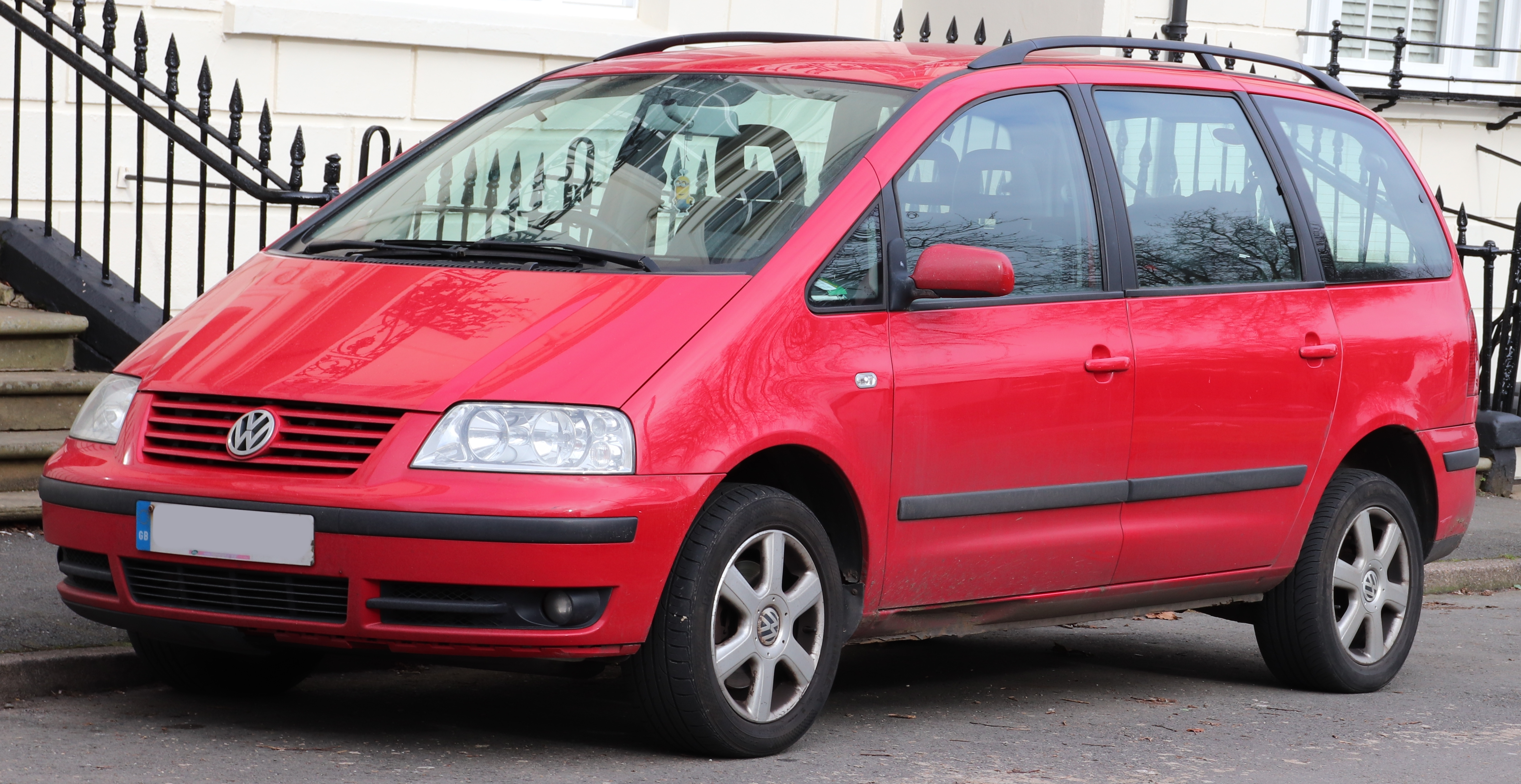 2003 Volkswagen Sharan Carat TDi PD 1.9 Taken in Leamington Spa